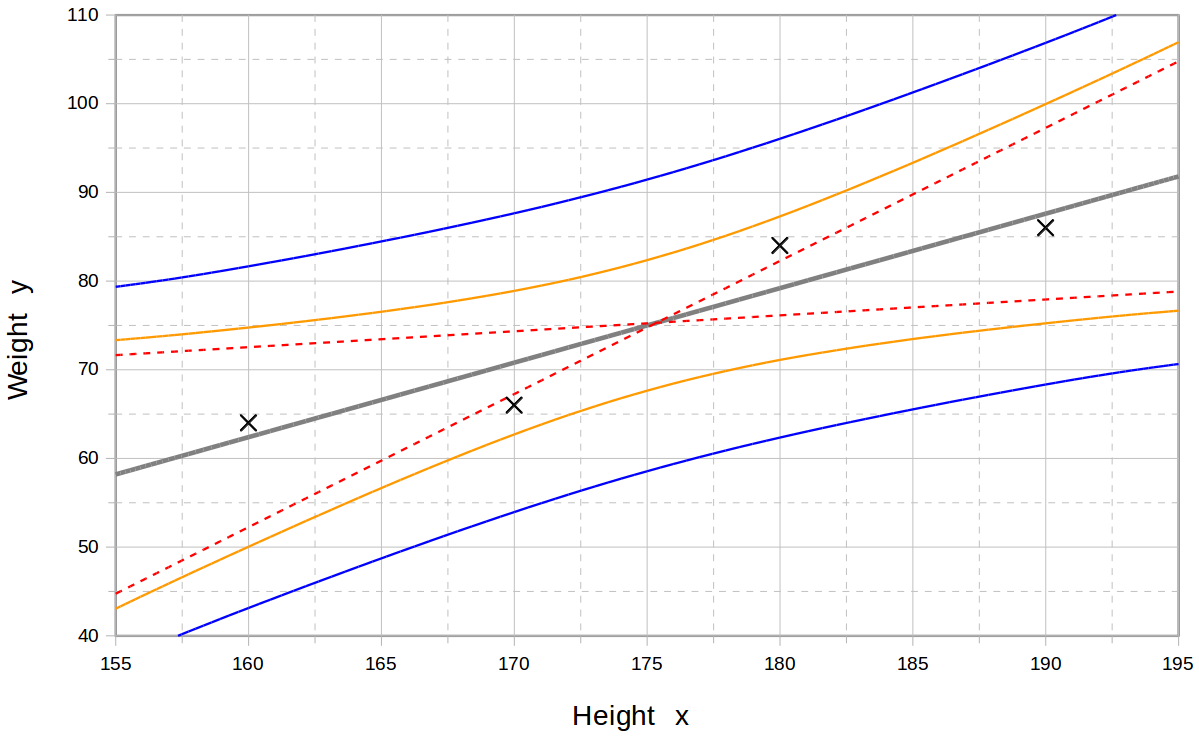 Linear Regression. In the middle, the interpolated straight line represents the best balance between the points above and below this line. The dotted lines represent the two extreme lines. The first curves represent the estimated values. The outer curves represent a prediction for a new measurement.